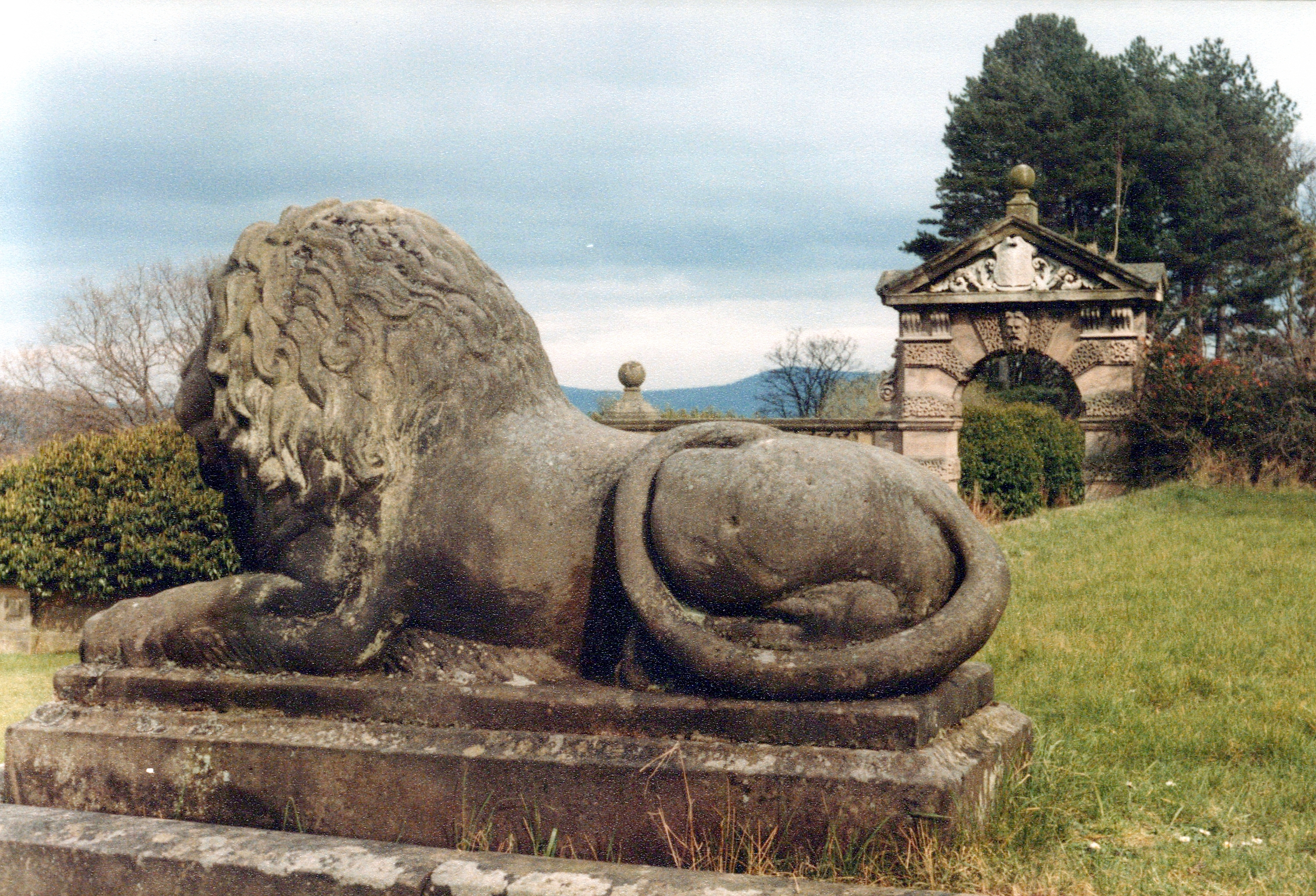 Lion sculpture in the grounds of Kinmel Hall, Abergele